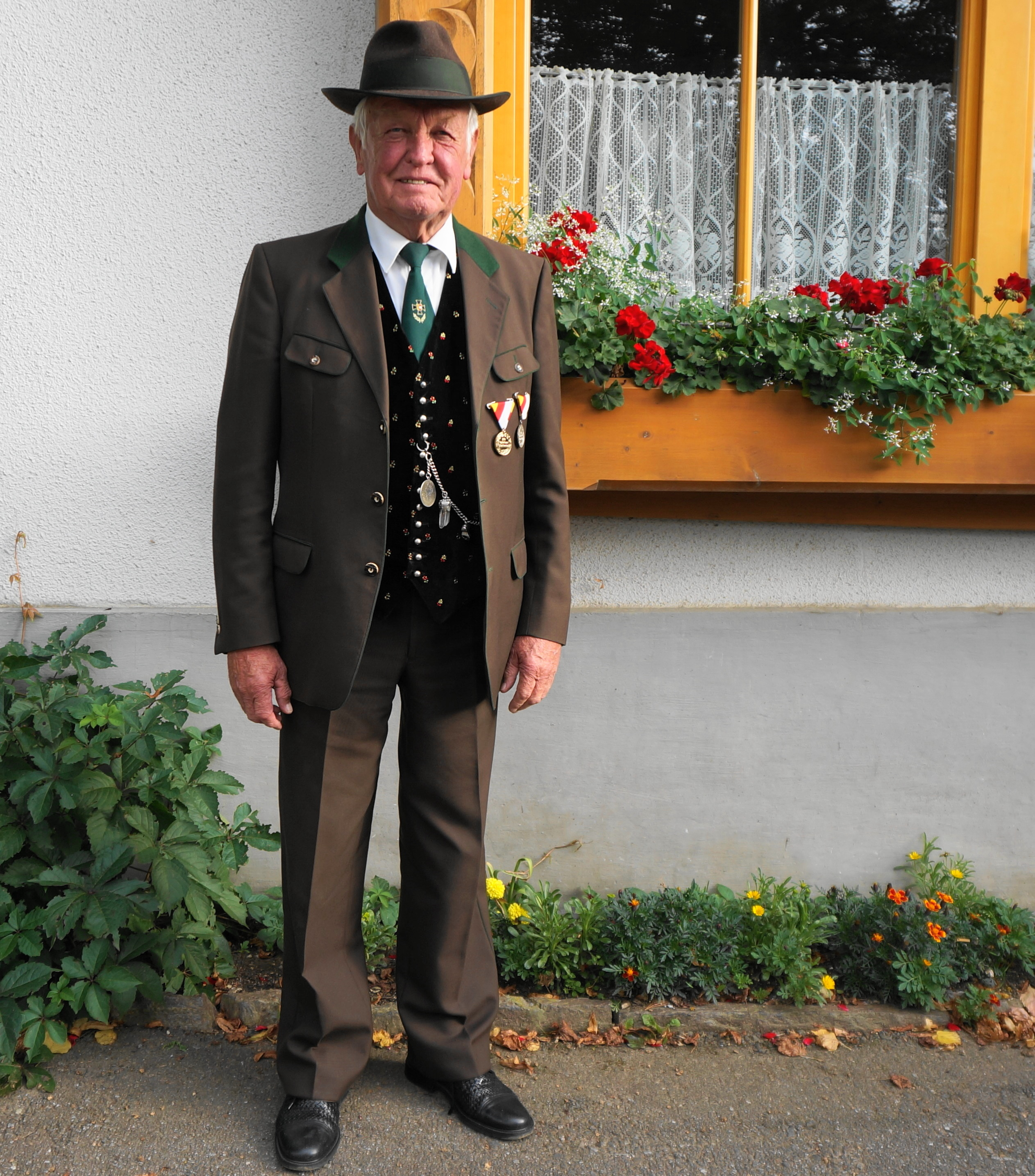 Original Carinthian suit